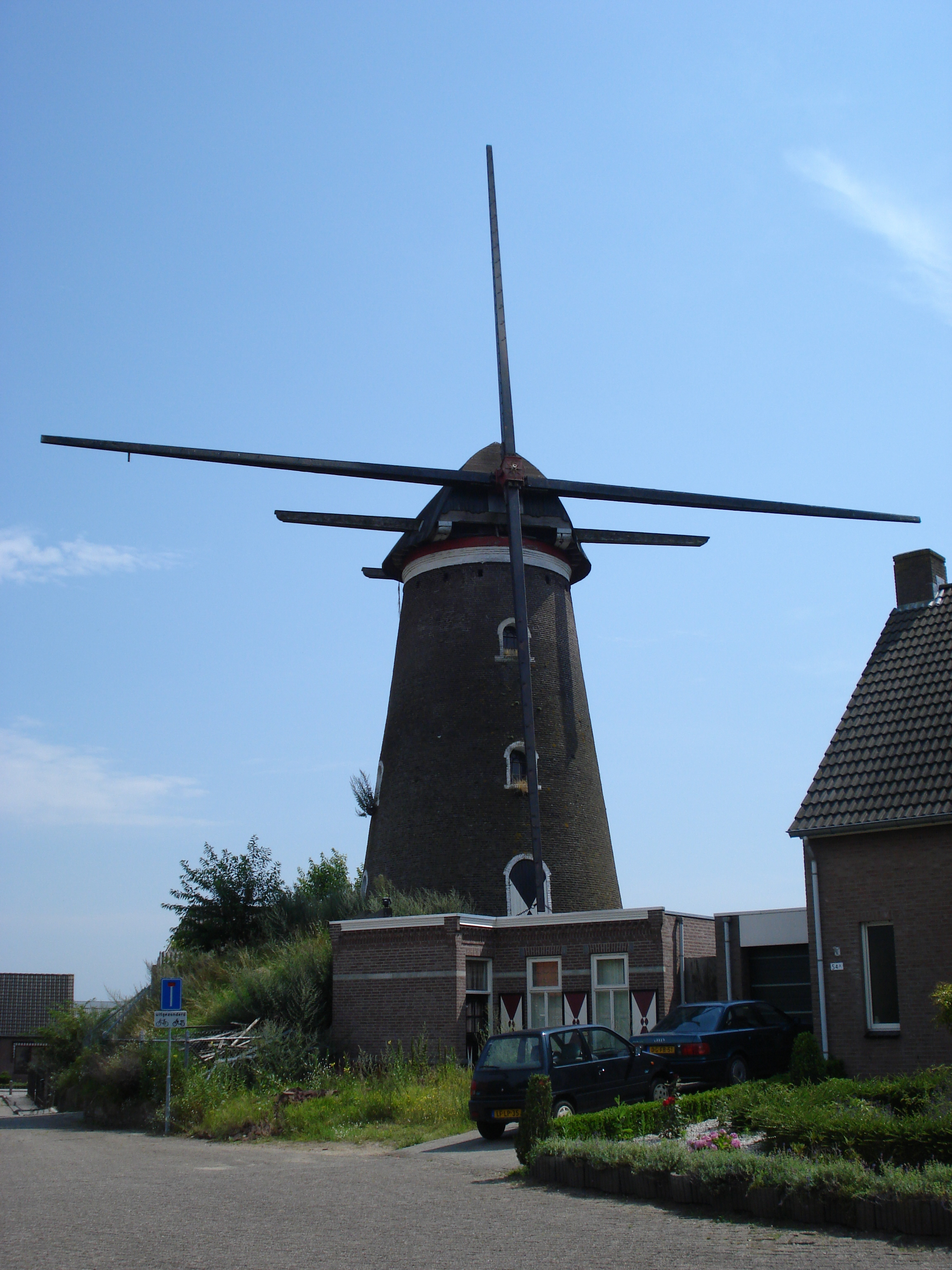 Mill, North Brabant, ancien moulin